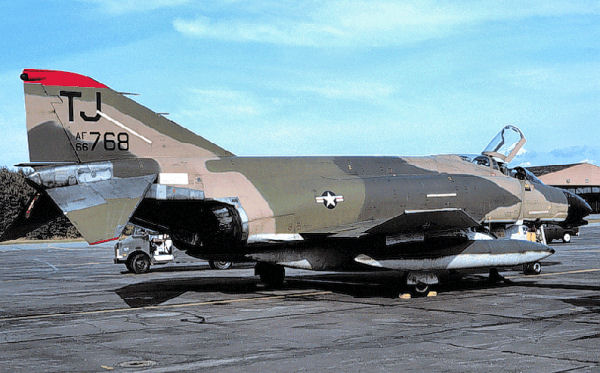 F-4D Serial 66-7768 of the 614th TFS / 401st Tactical Fighter Wing, Torrejon Air Base, Spain. Comment : This is a F-4E .. I was stationed at Torrejon Air Base, Spain from Dec. 1969 until April 1973... I worked on them as a crew chief in the 307th.. they arrived in Jan. I believe and where still there when I left.. and before they arrived .. F100 was the aircraft stationed there ...